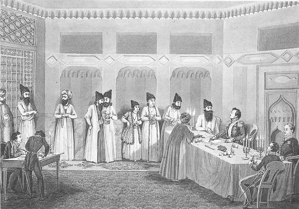 Paskevich and Abbas Mirza in Turkmanchay (10 February 1828)